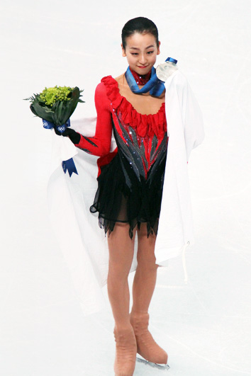 Mao Asada(JPN) at the 2010 Winter Olympic figure skating medal ceremony.She won the silver medal.